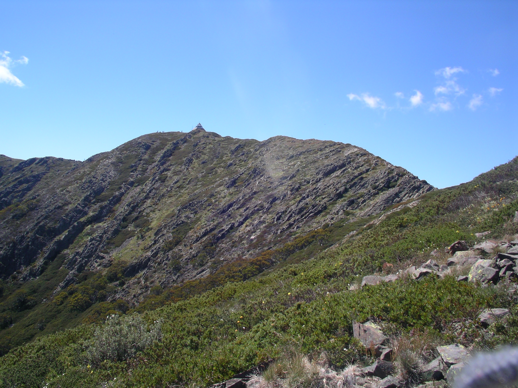 Mount Buller summit ridge in Summer from the Northwest.